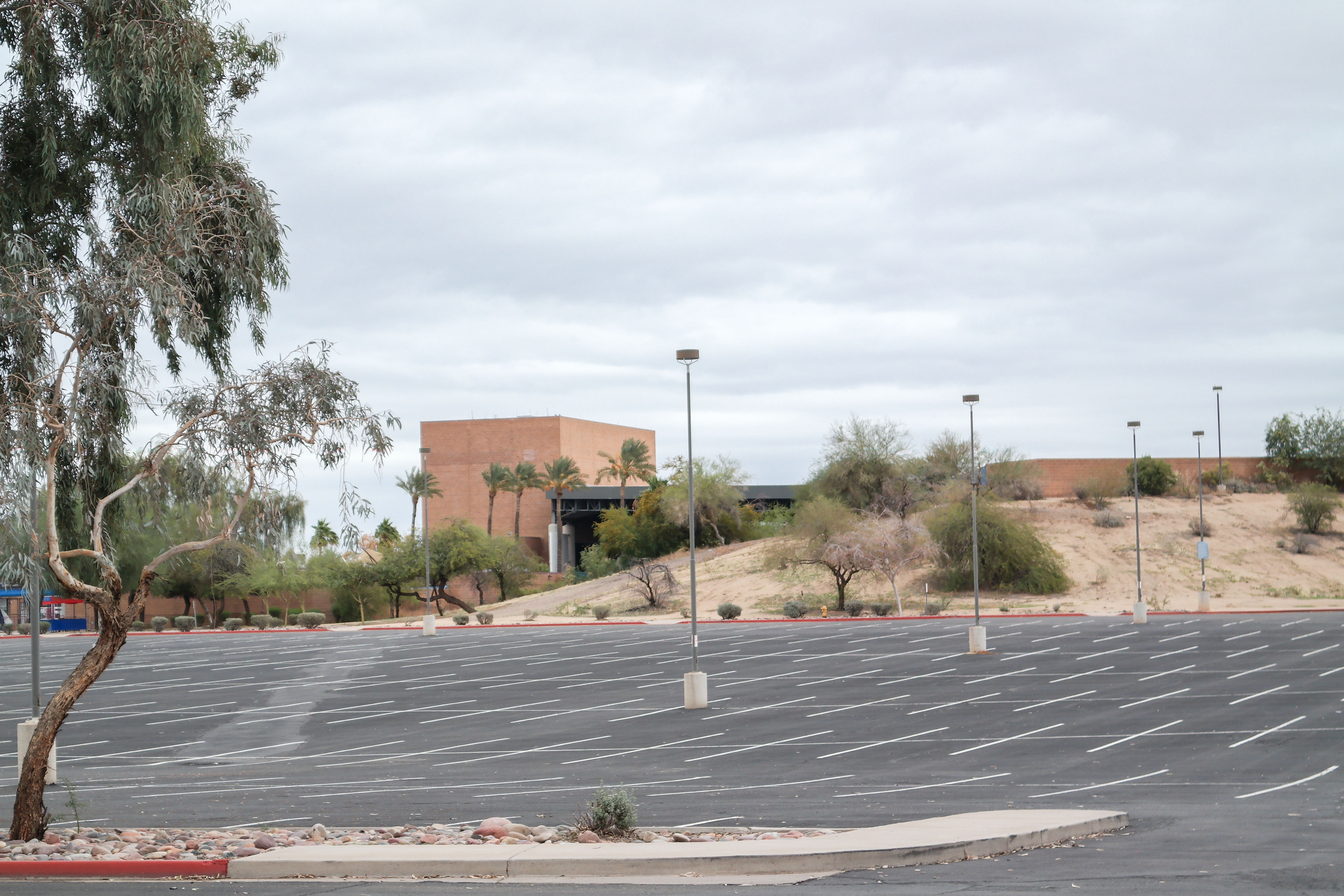 A view of the Ak-Chin Pavilion in Phoenix, Arizona